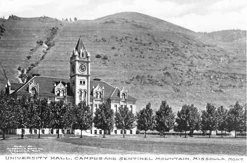 early picture of the University of Montana's University (Main) Hall